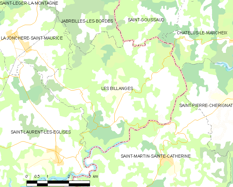 Map of French municipality Les Billanges